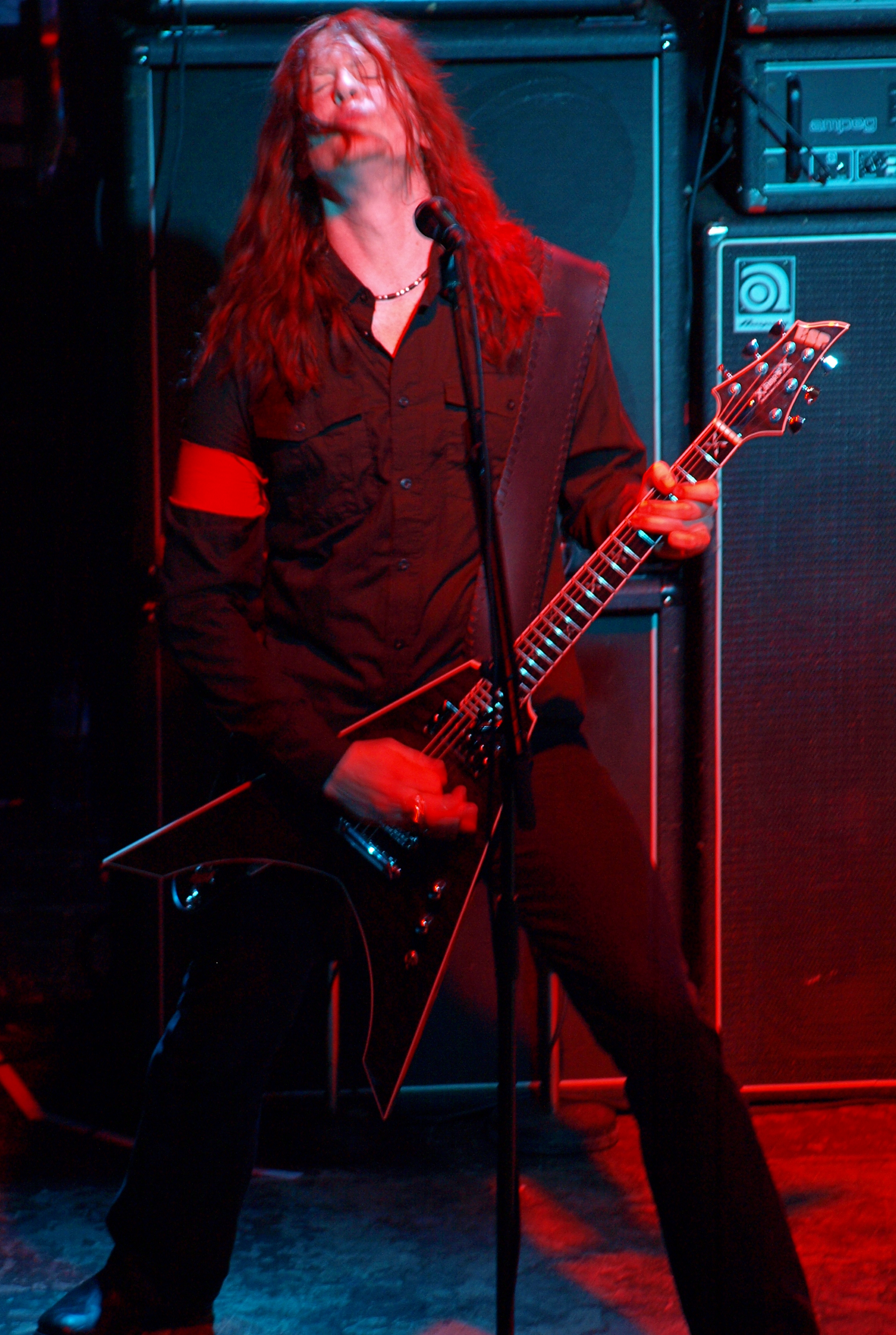 Swedish melodic death metal band Arch Enemy